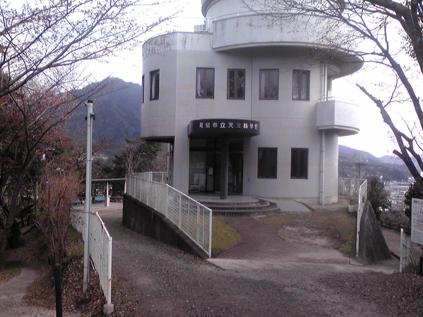 中村山城の二の丸「尾鷲市立天文科学館」